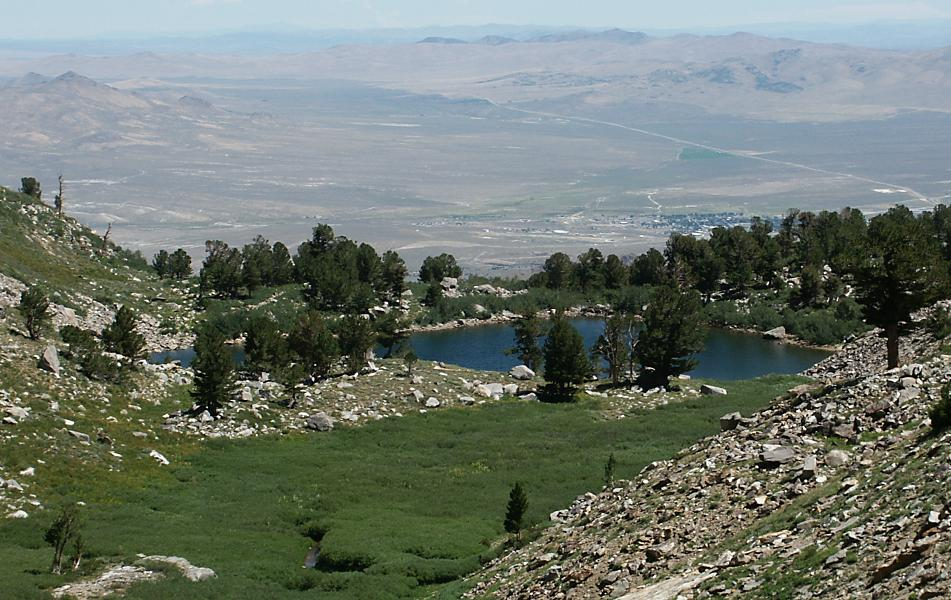 Smith Lake, in the East Humboldt Wilderness Area — in the East Humboldt Range of Elko County, northeastern Nevada. View northeast: in the distance are the Humboldt Valley and the community of Wells.